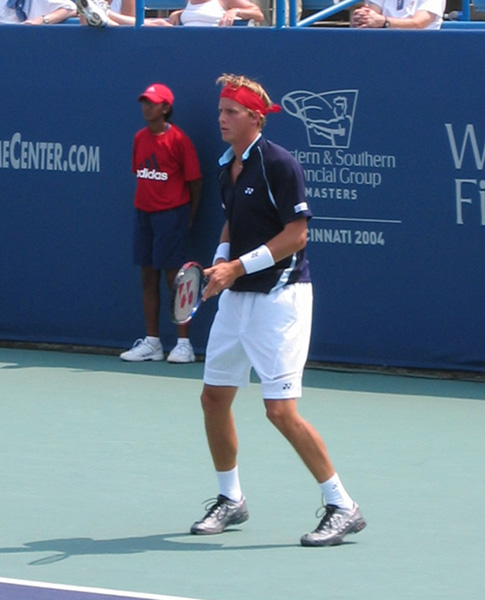 Joachim Johansson Joachim "Pim-Pim" Johansson warming-up in Cincinnati 2004.